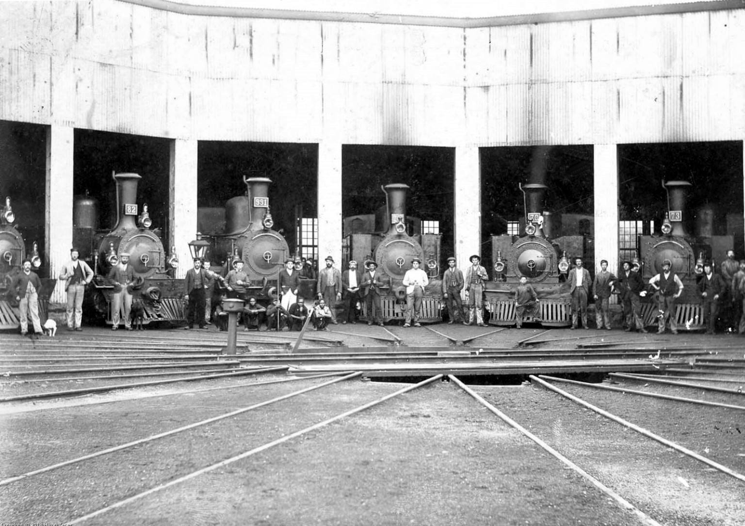 Waterval-Boven roundhouse with several NZASM 46 Tonners (later Class B on the South African Railways) and NZASM 32 Tonner no. 991